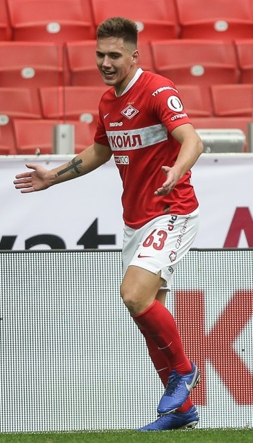 Daniil Petrunin with FC Spartak-2 Moscow in a game against FC Torpedo Moscow.